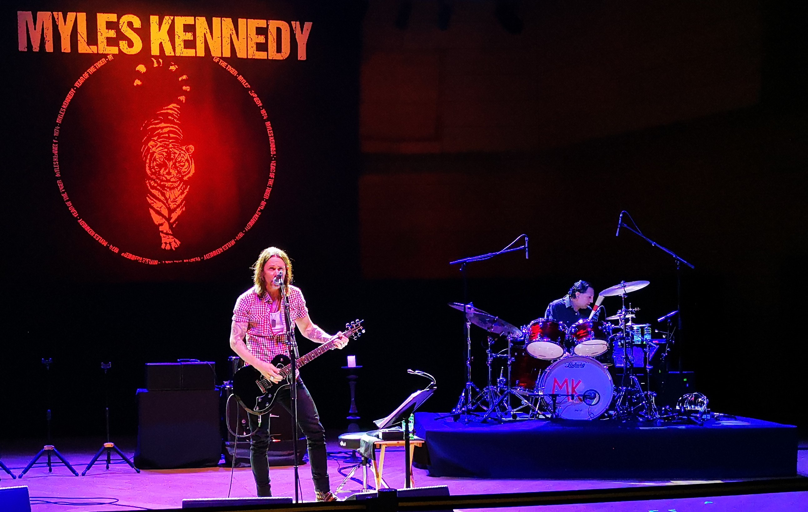 Myles Kennedy and drummer Zia Uddin live at Teatro dal Verme in Milan on July 18, 2018